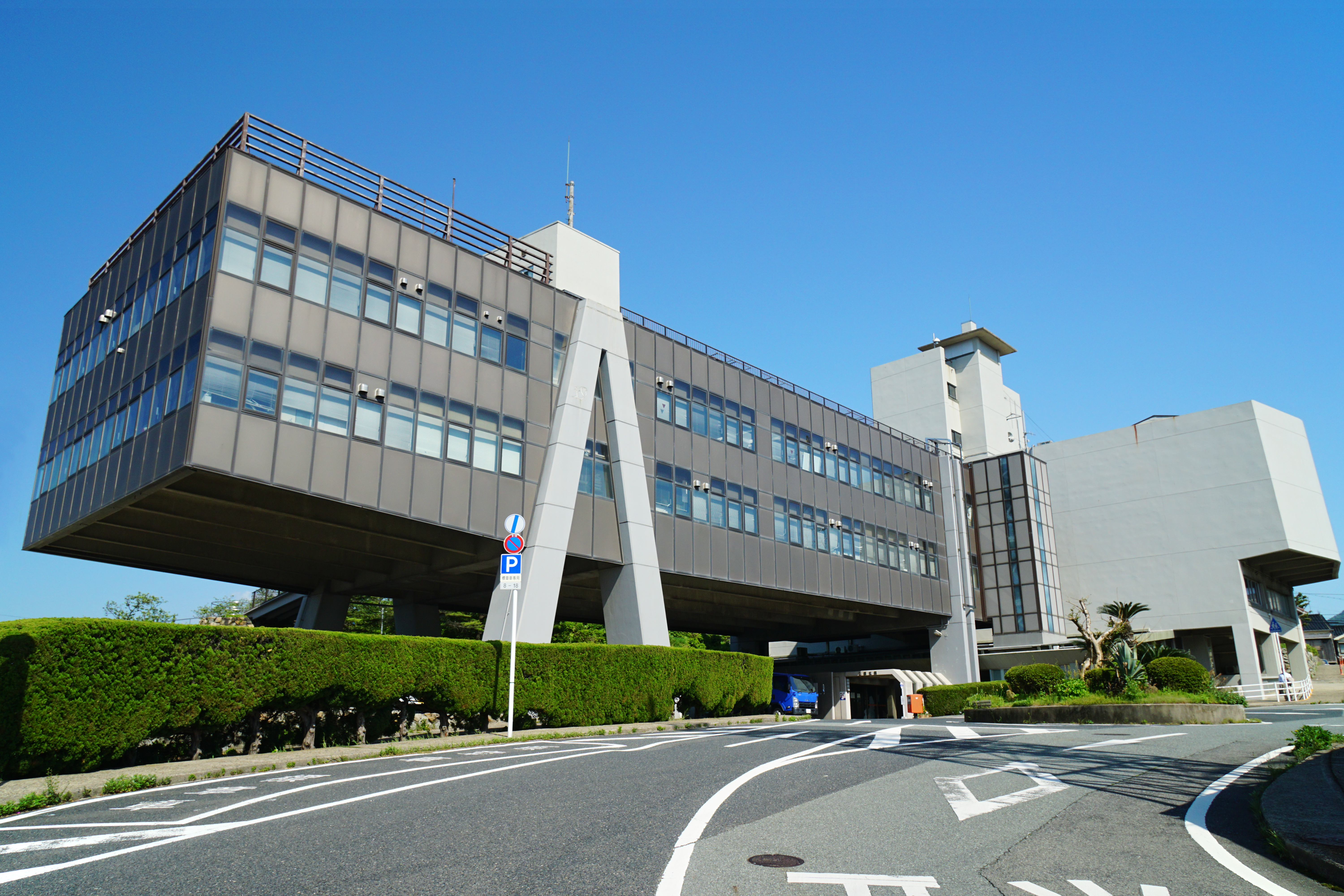 Gotsu_City_Hall, Gotsu, Shimane prefecture, Japan